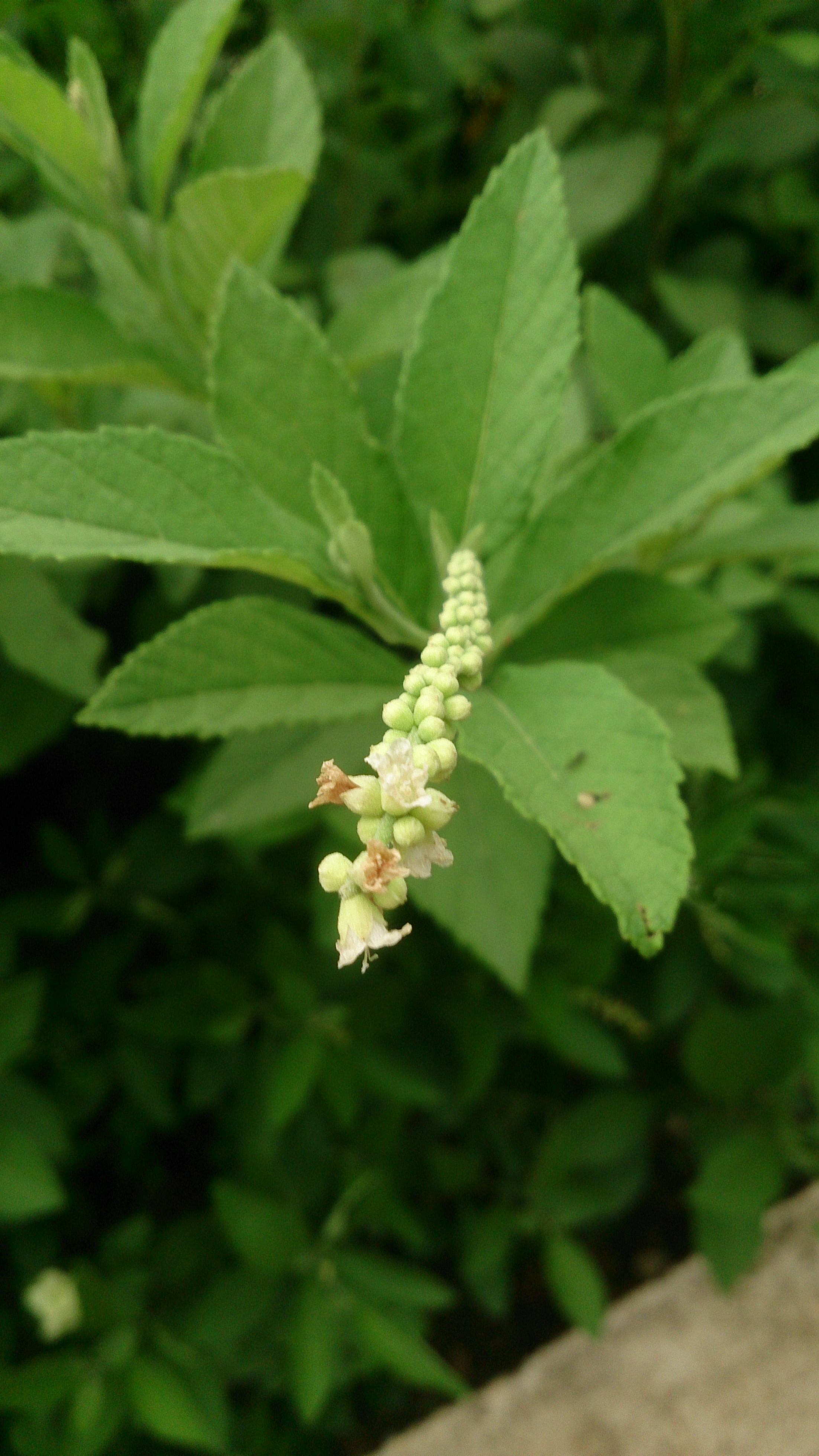 Cordia cylindristachya. Common name: String Bush. Attracts feeding butterflies and is suitable as a hedge or for screening. Medicinal usage: treating colds, indigestion and high blood pressure.